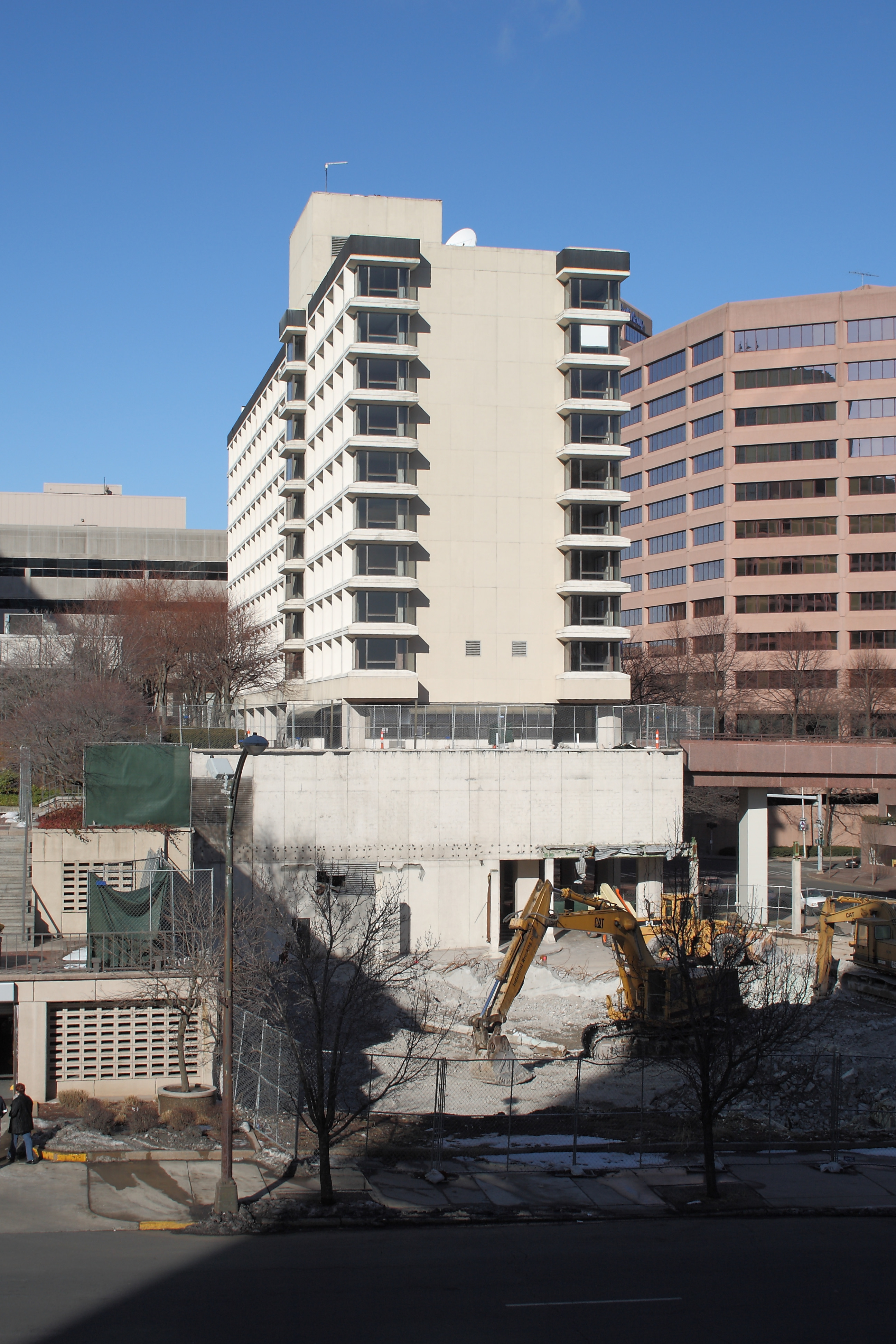 The former Clarion Hotel building in Hartford, Connecticut, with the recently-demolished Broadcast House site in the foreground